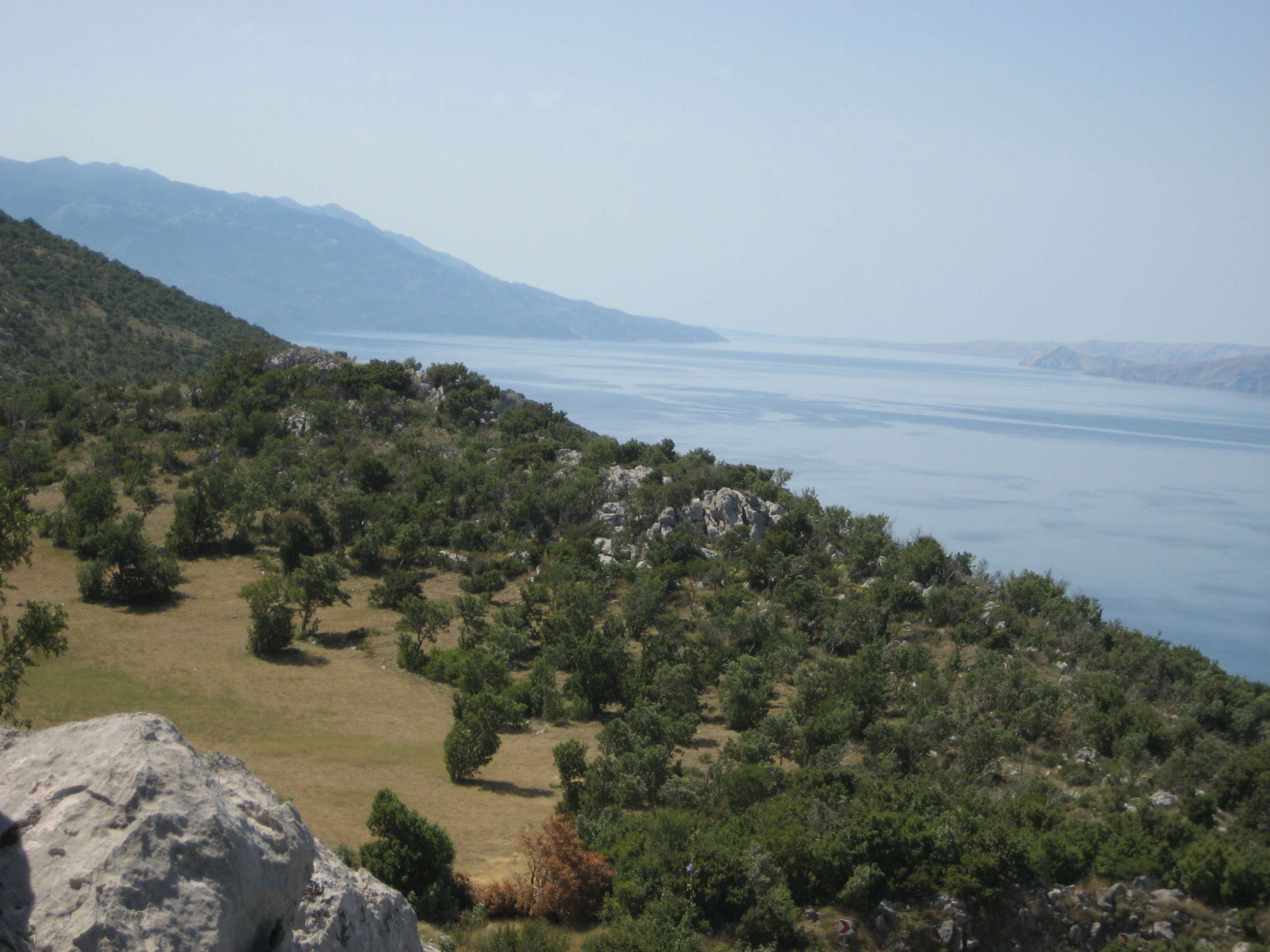 Coat in the Kvarner Area, Croatia.